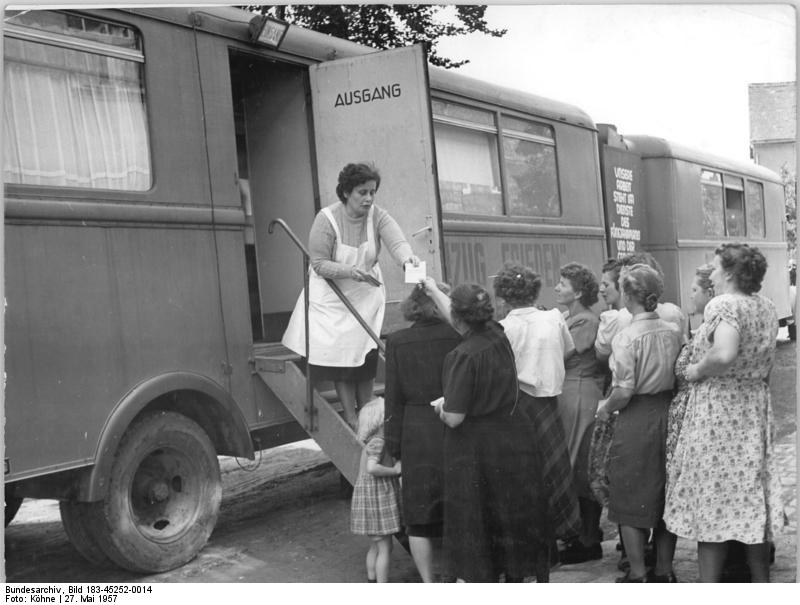 Shown is a "Röntgenzug", a train with X-ray equipment for the support of doctors in the province far from the cities, in the year 1957. The place is Hermstedt in Kreis Apolda in the Erfurt country district, East Germany.